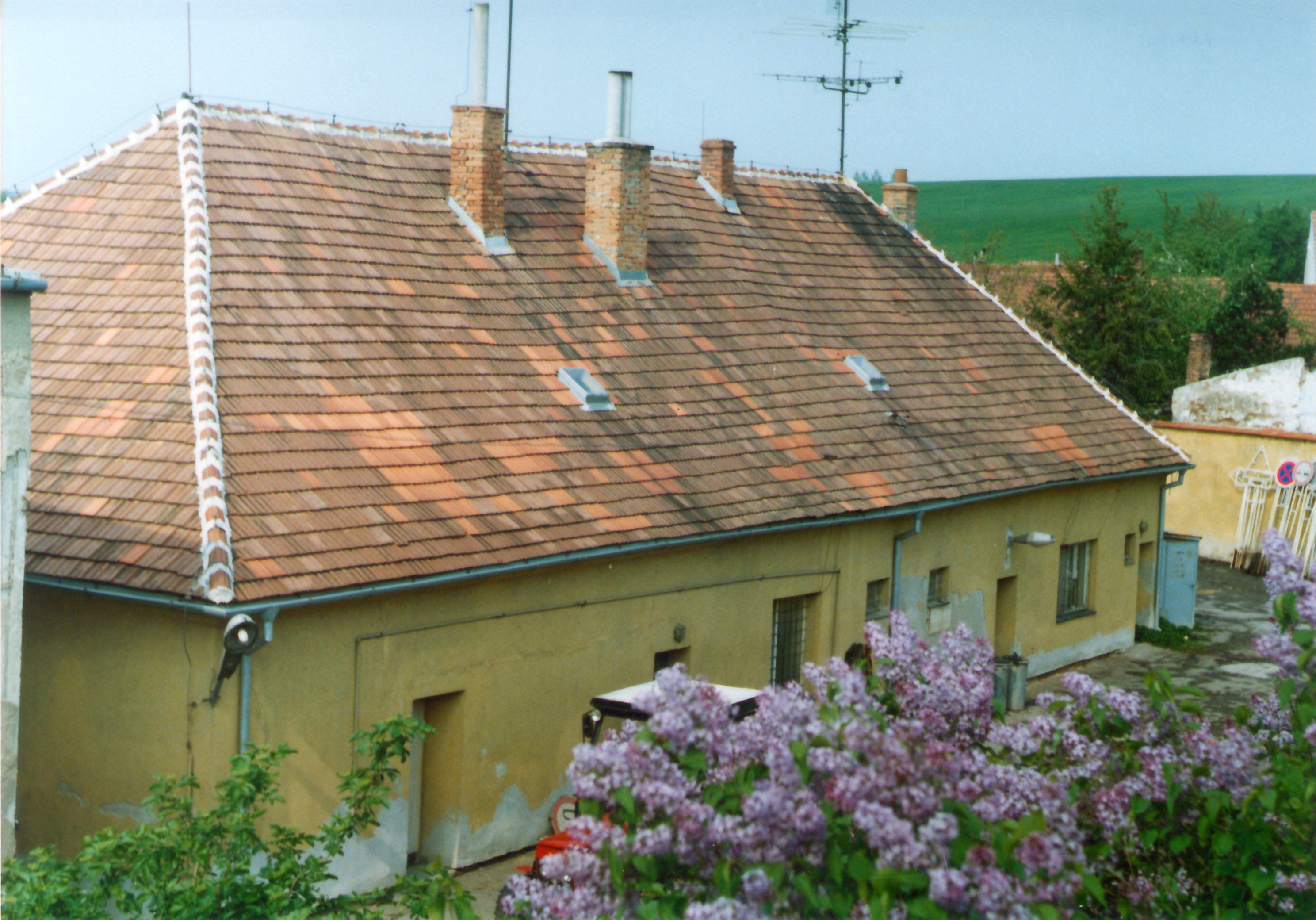 Former coaching inn at Pindulka, Brno-Country District.